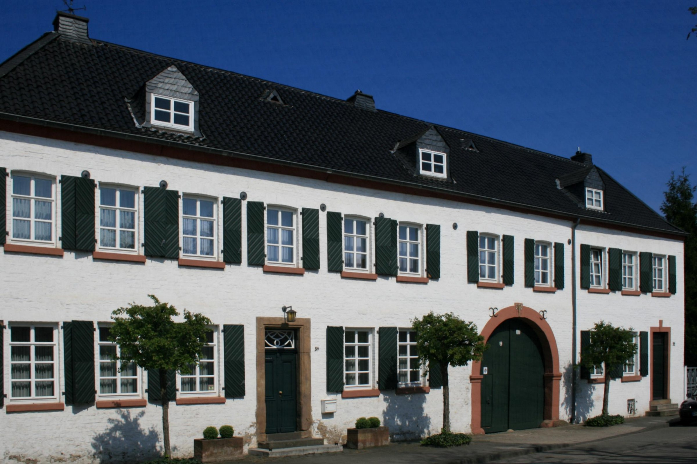 Cultural heritage monument No. 6/007 in Düren